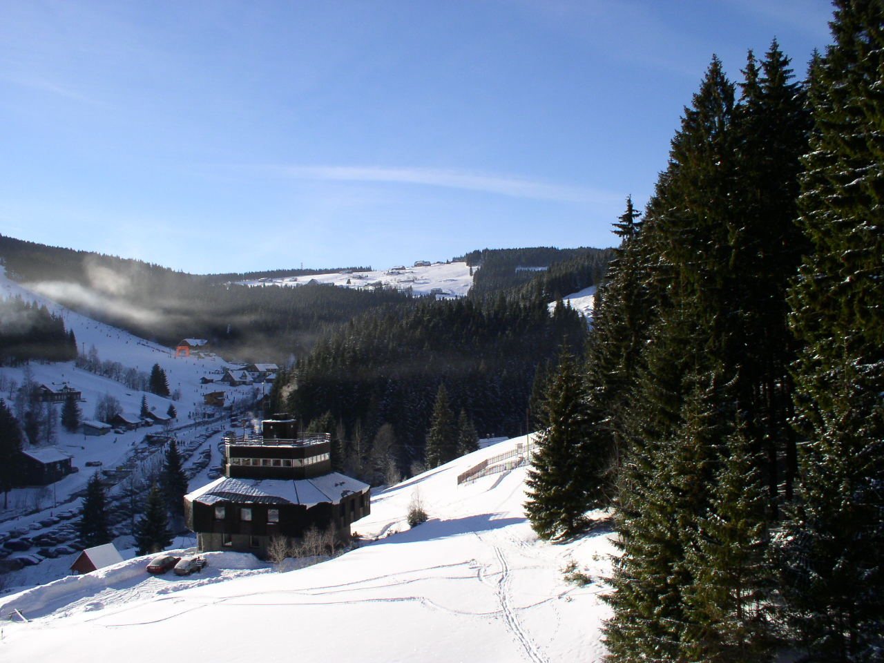 A snow-covered bungalo in Pec pod Sněžkou, Czech Republic